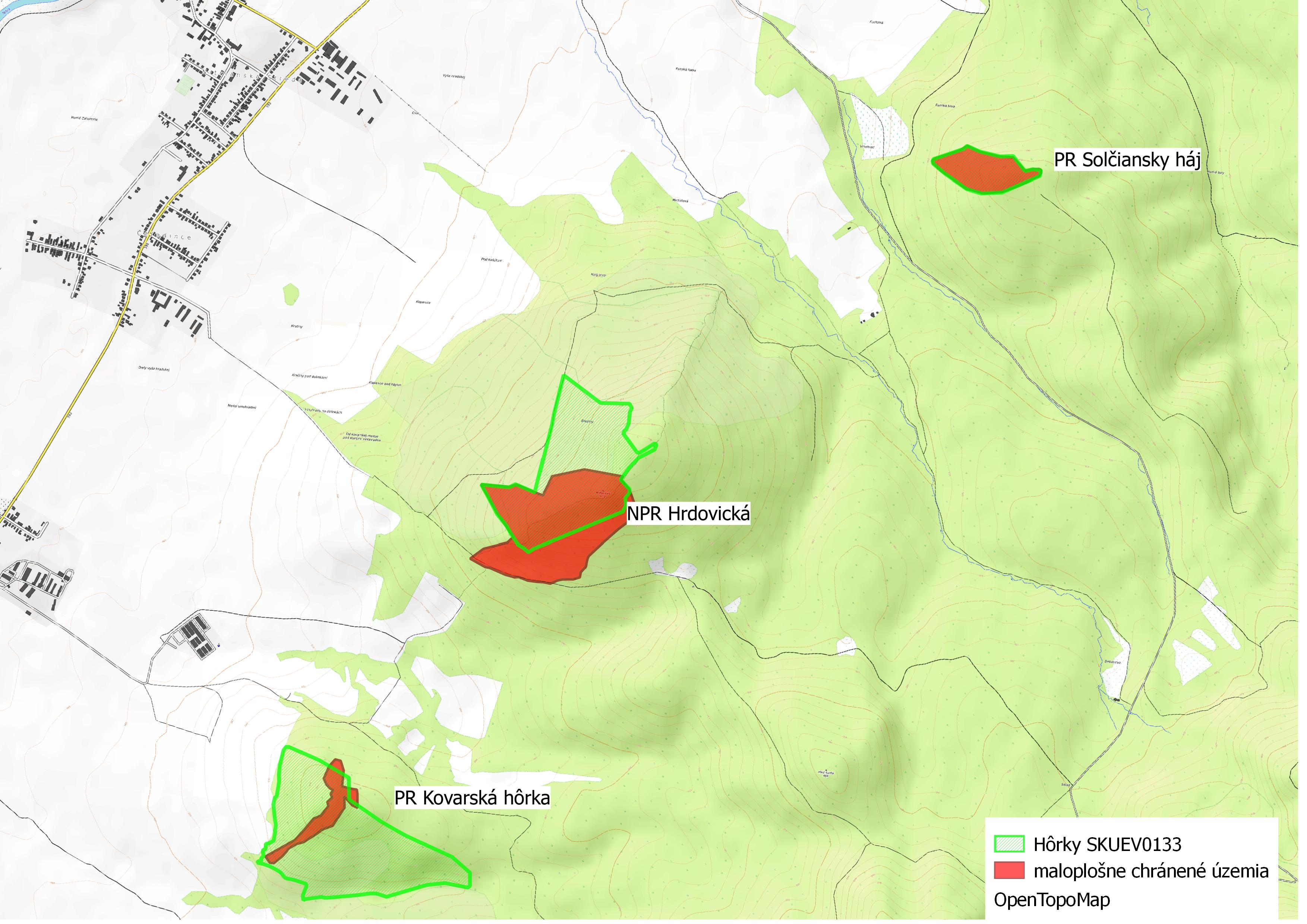 Map of NATURA2000 Special Area of Conservation SKUEV0133 "Hôrky" and nature reserves. This SAC has a 3 parts and each part cover with one of the following nature reserverses Hrdovická, Solčiansky háj or Kovarská hôrka.